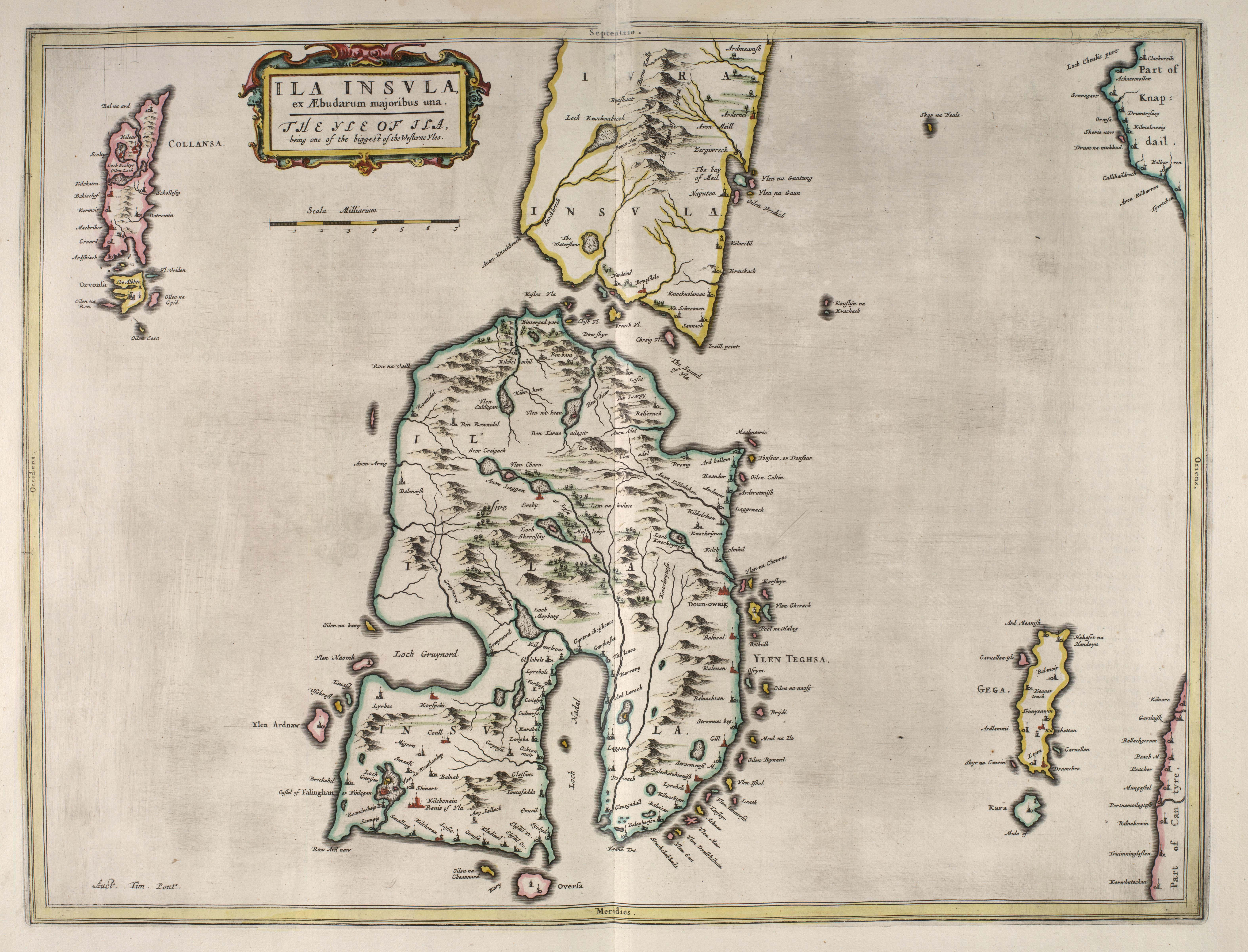 ILA INSVLA - The Isle of Ila